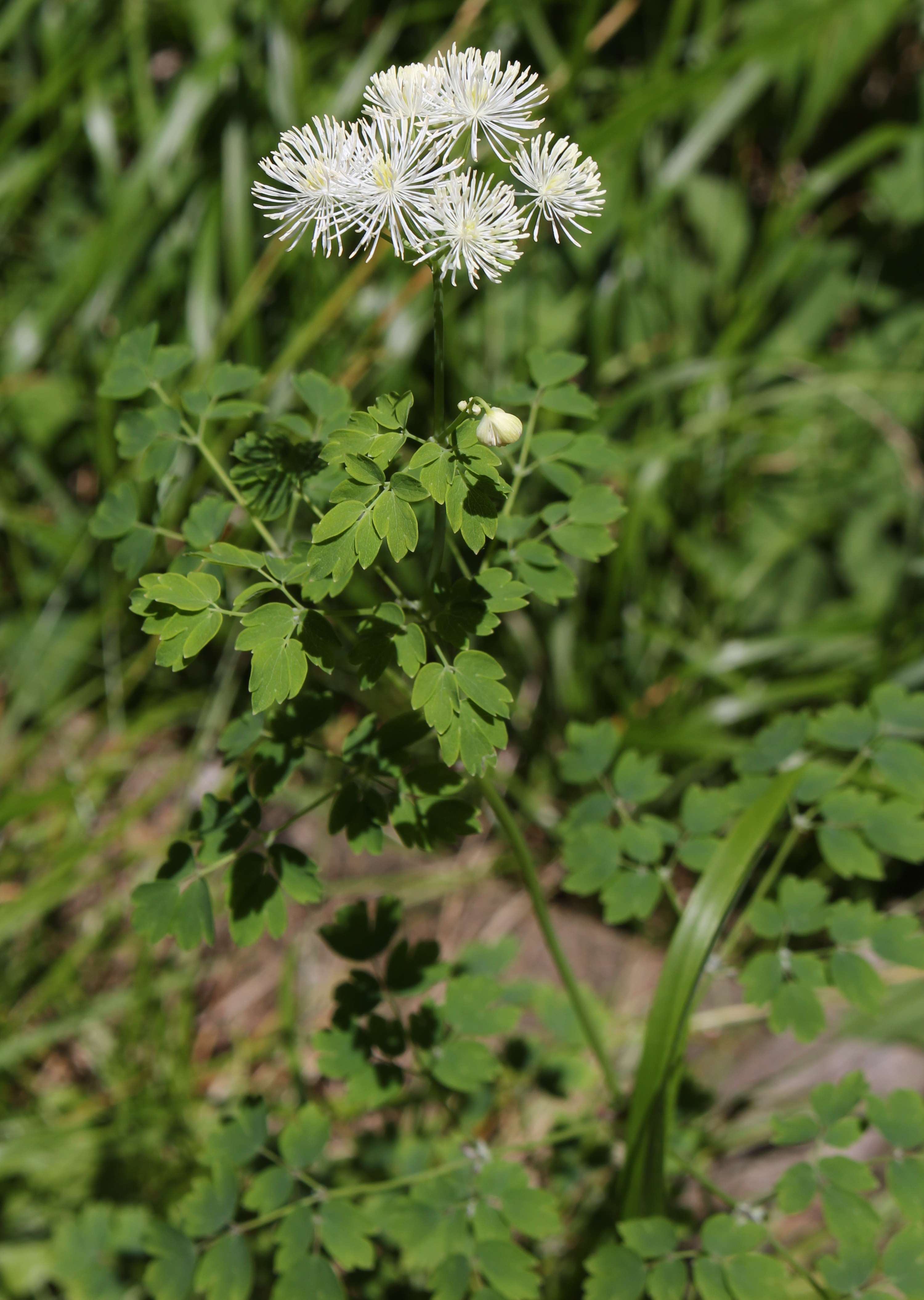 Thalictrum aquilegiifolium var. intermedium, in Mount Hijiri, Akaishi Mountains, Japan.